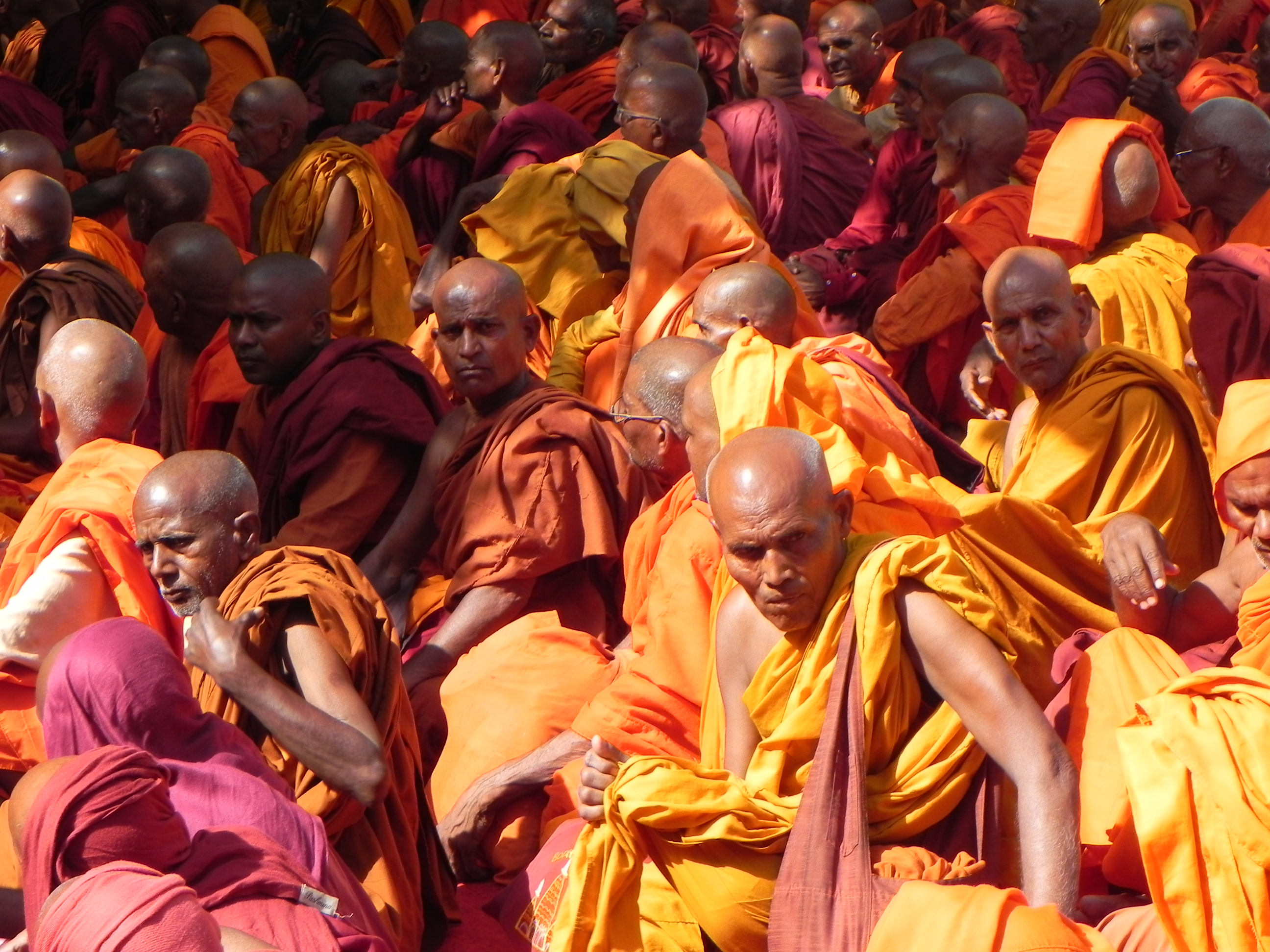 ranjan